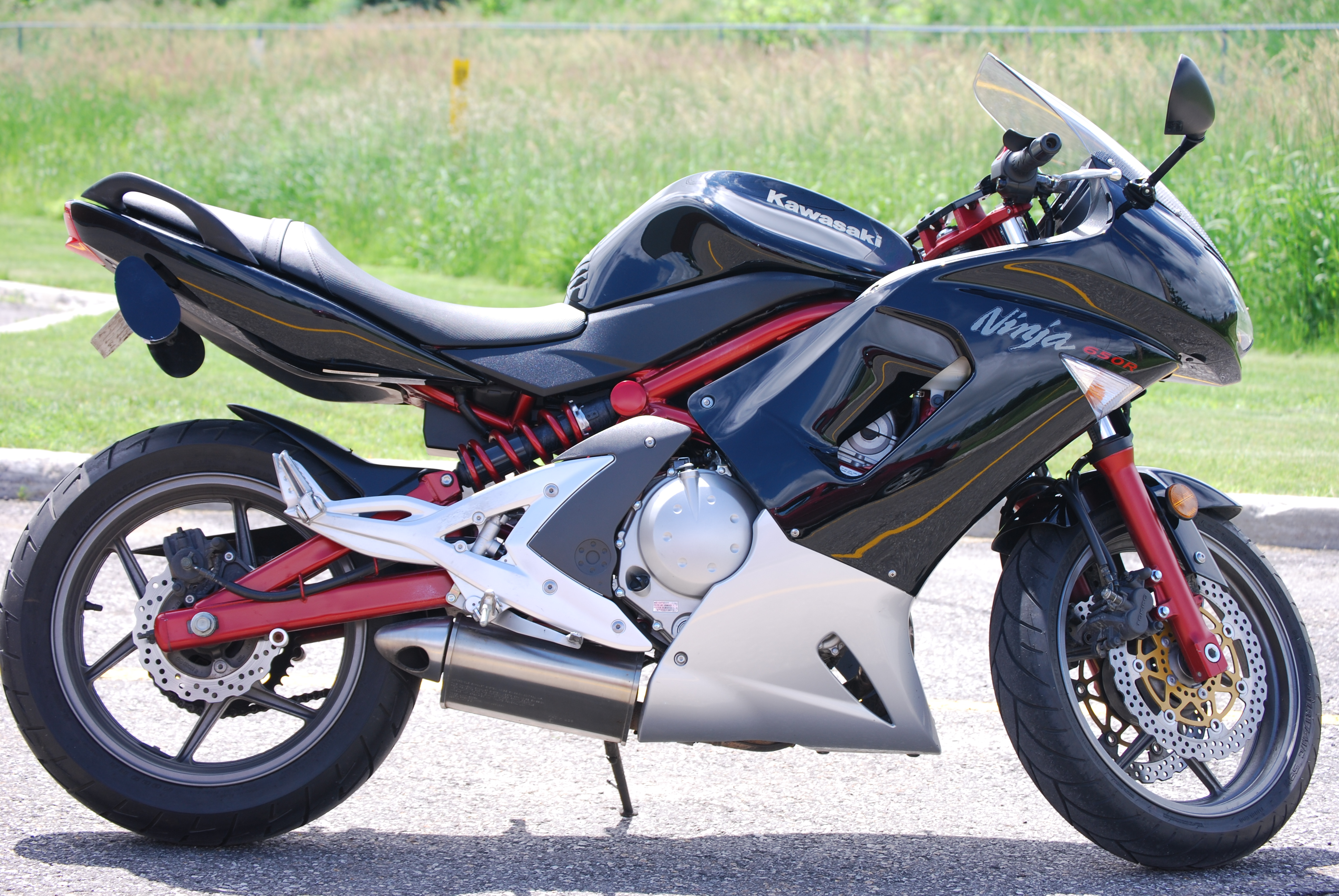 Some dude's motorcycle in the parking lot.